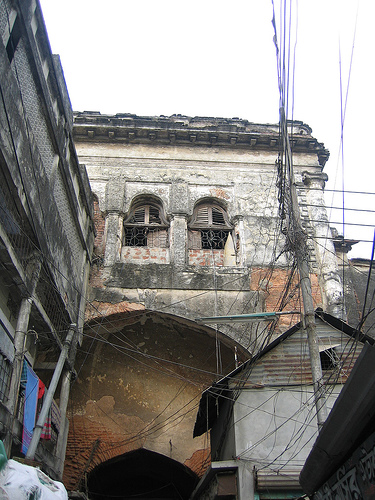 Chhoto Katra, a Mughal era building, in ruins in Old Dhaka, Bangladesh.